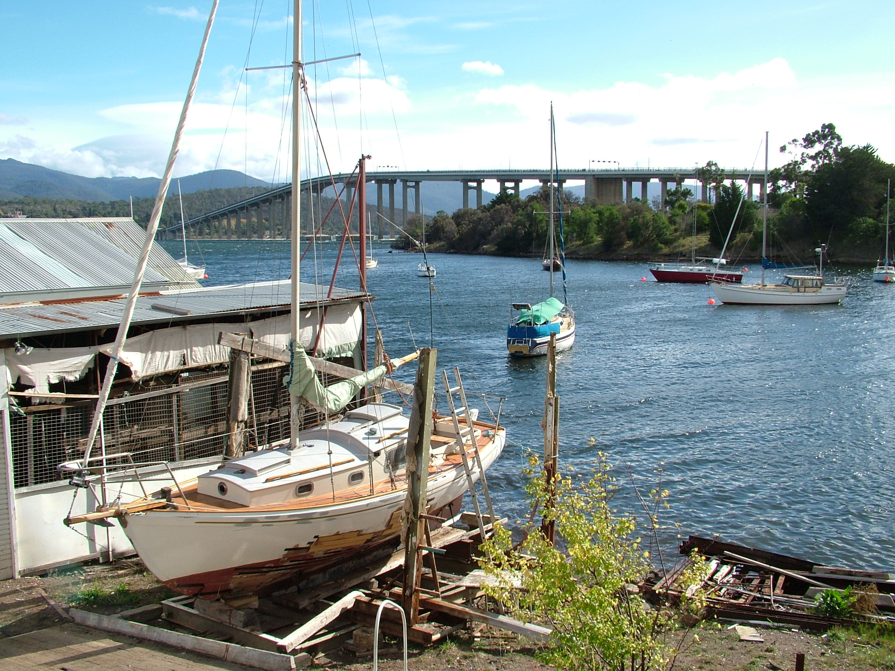 View of Montagu Bay, Tasmania, Australia. Shows a H28 yacht on the slips for repairs with the Tasman Bridge in the background.